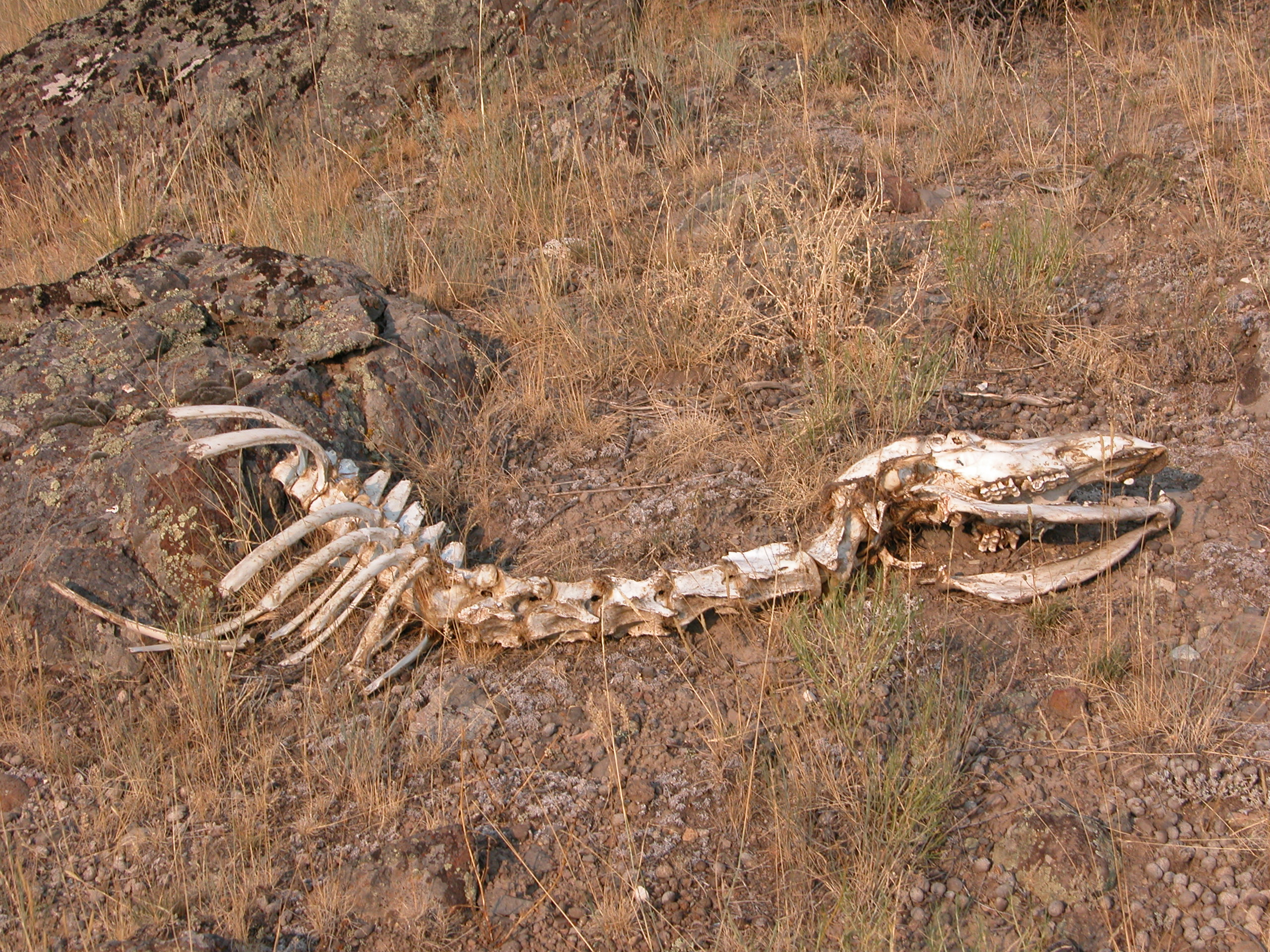 Partial skeleton of an animal near Gardner River at Yellowstone National Park.